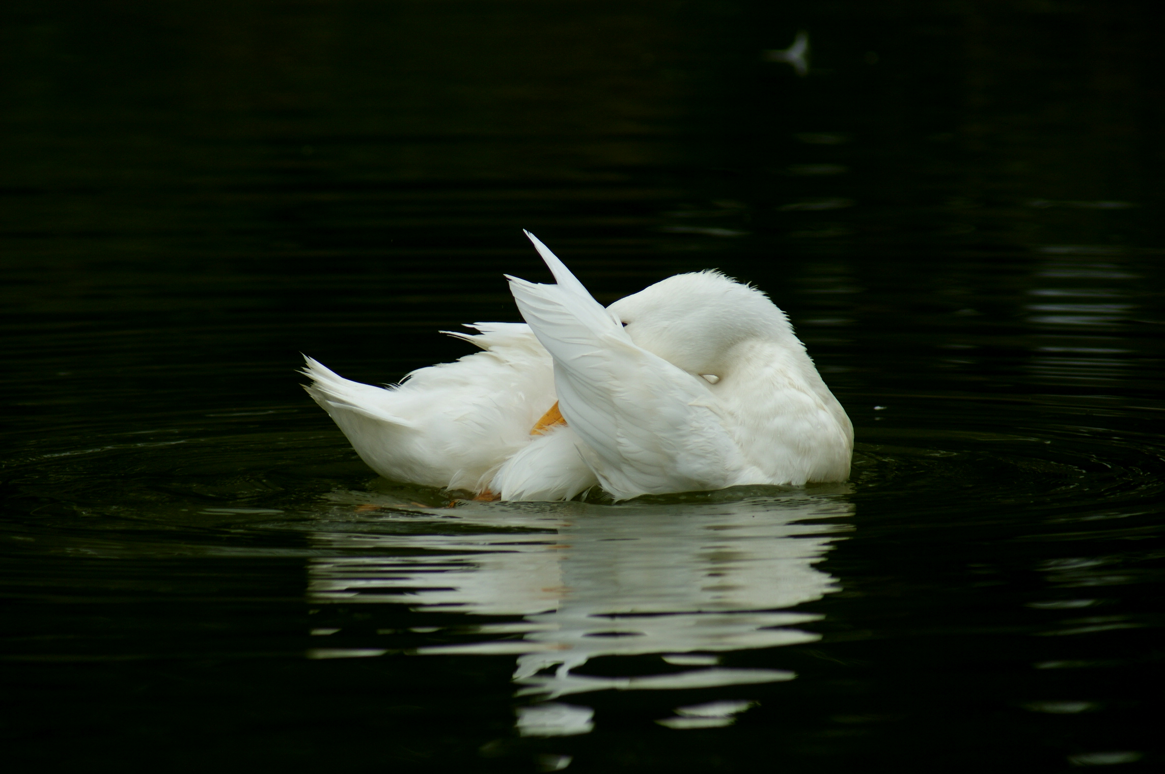 Flexible Neck Of White Duck. Bangalore, India.